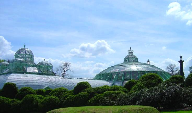 Part of the Royal Greenhouses of Laeken, Belgium. own photo